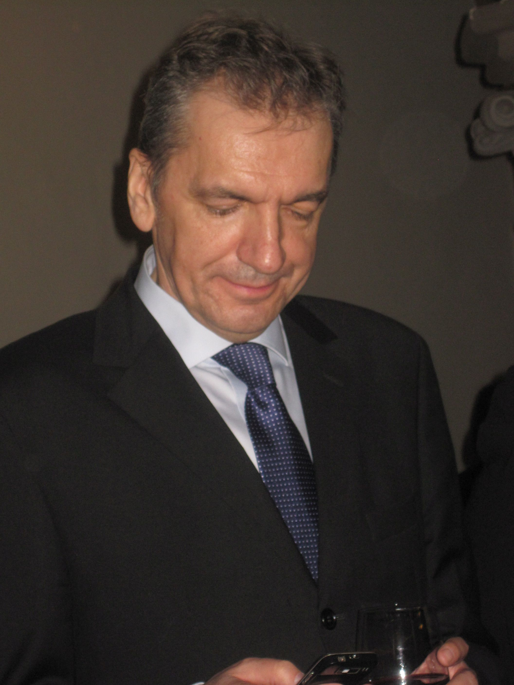 polonian film director Władysław Pasikowski